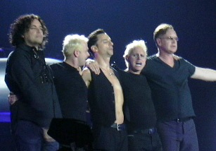 Depeche Mode at a performance in Barcelona on February 11, 2006. From left to right: Peter Gordeno, Christian Eigner, David Gahan, Martin L. Gore, Andrew Fletcher Espanol: Depeche Mode en concert (Barcelona, 11 de febrer de 2006), realitzada per Catsynth